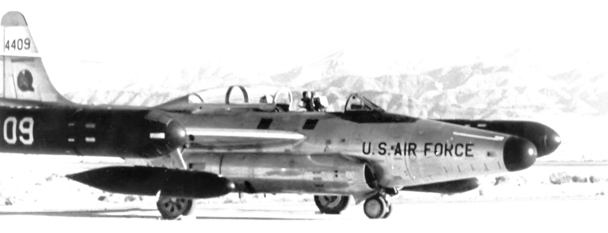 432d Fighter-Interceptor Squadron Northrop F-89H-5-NO Scorpion 54-409 1957 Stationed at Minneapolis-Saint Paul International Airport, Minnesota. At Indian Springs Auxillary Airfield, Nevada armed with a "Genie" nuclear missile. Aircraft fired the nuclear weapon as the "John Shot" of Operation Plumb Bob, 19 July 1959